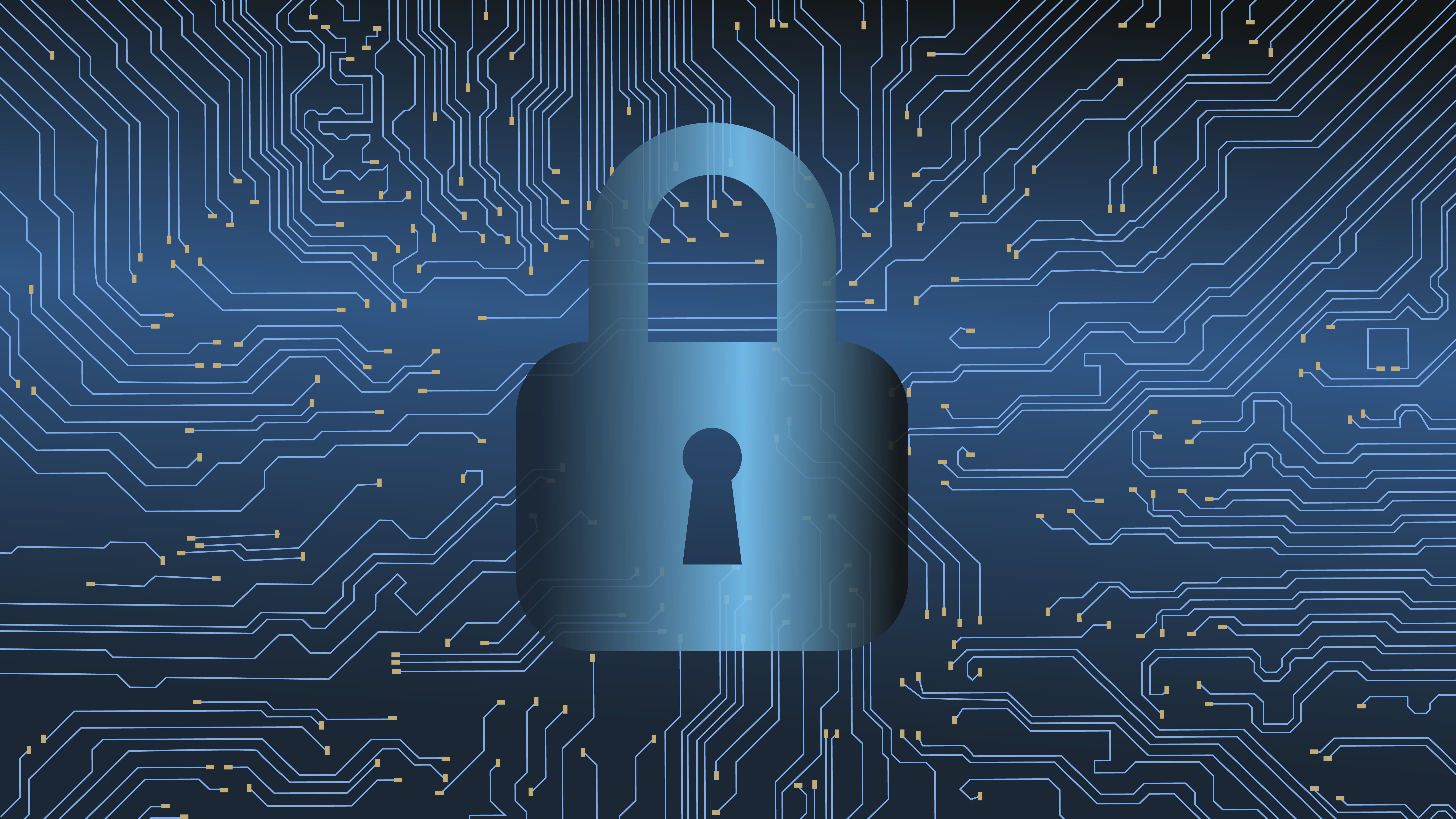 A padlock superimposed over a blue circuit board pattern.